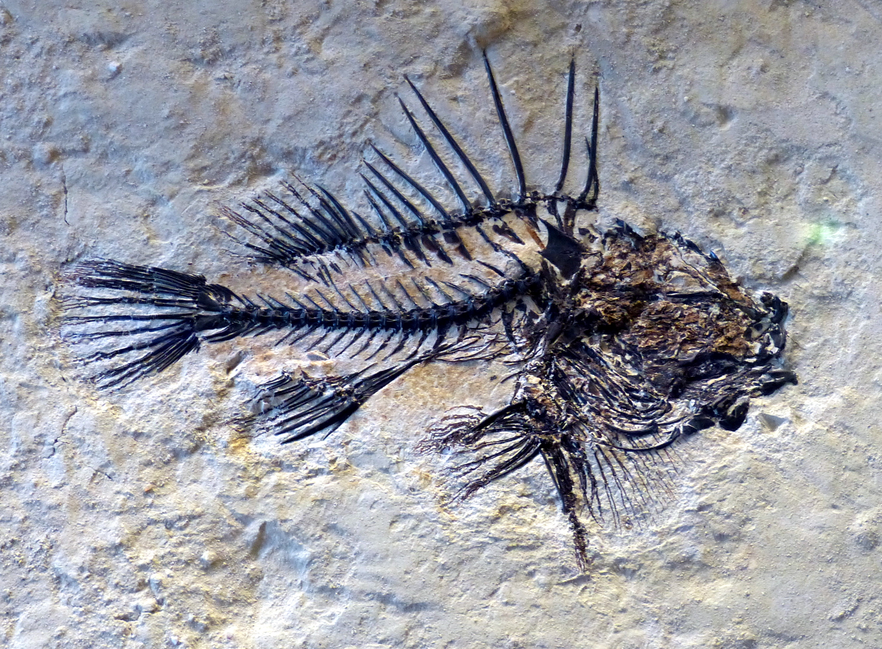 Natural History Museum, Vienna. Fossile Scorpaena prior from St.Margarethen ( Austria ).